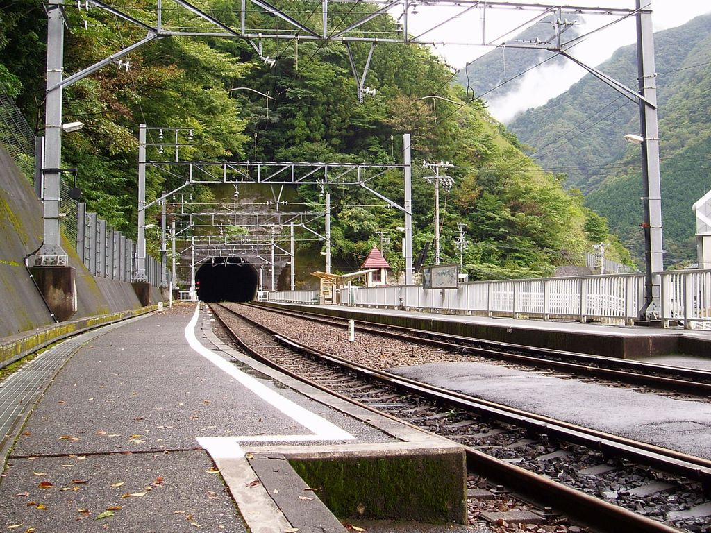 Inside of Nagashima Damu Sta.